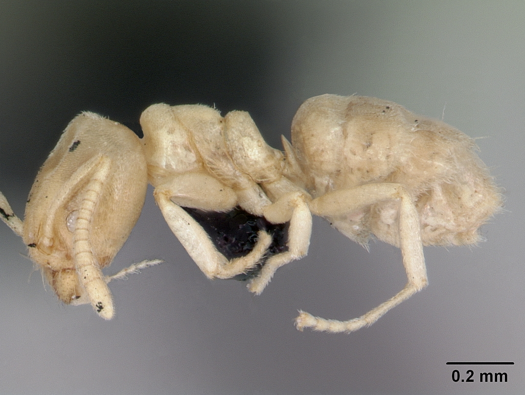 Profile view of ant Nebothriomyrmex majeri specimen casent0009951.